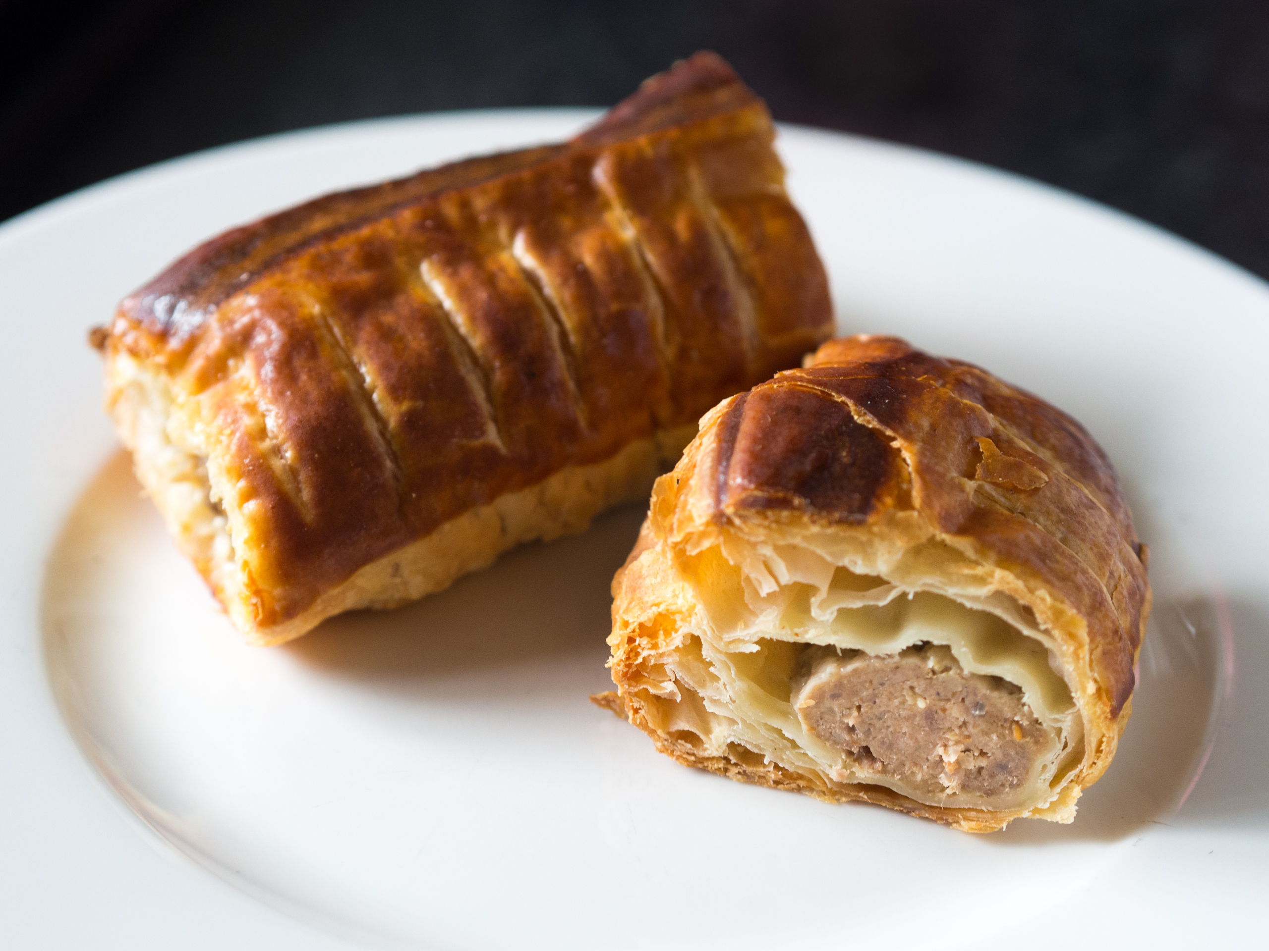 A sauzijzenbroodje is a savoury snack in The Netherlands. It consists of spiced, ground meat (either beef or a mixture of beef and pork), rolled into puff pastry and then baked. This snack is usually eaten warm.